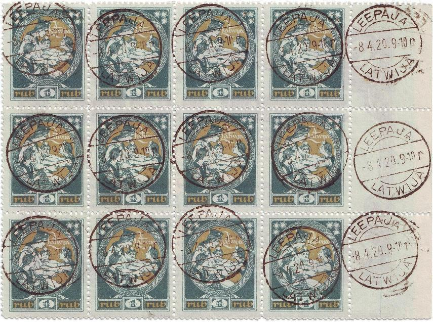 Latvia: Block of twelve 1 rouble stamps (and three empty fields) of the March 1920 issue "Return of Latgale to Mother Latvia", Mi. 41. Designed by Rihards Zariņš. Cancelled in Liepāja, 8-4-1920.